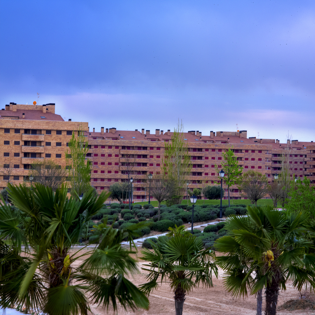 Residencial Francisco Hernando in Seseña, Toledo, Spain